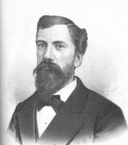 Allen R. Bushnell, US Representative from Wisconsin